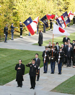 Yasuo Fukuda, Prime Minister, laid a wreath at Arlington National Cemetery in Arlington County, Virginia Commonwealth on November 16, 2007.